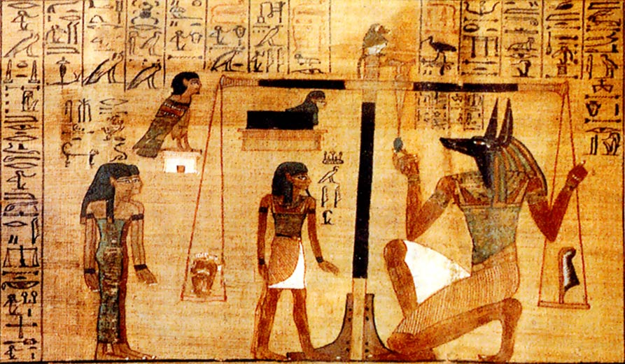 Vignett til kapittel 30B av Dødeboken A Section of Plate 3 from the Papyrus of Ani. The Papyrus of Ani is a version of the Book of the Dead for the Scribe Ani. Plate 3 contains half of the first (and longer) instance of Chapter 30B in Ani's Book of the Dead. The title of Chapter 30B is: Chapter For Not Letting Ani's Heart Create Opposition Against Him, in the Gods' Domain.